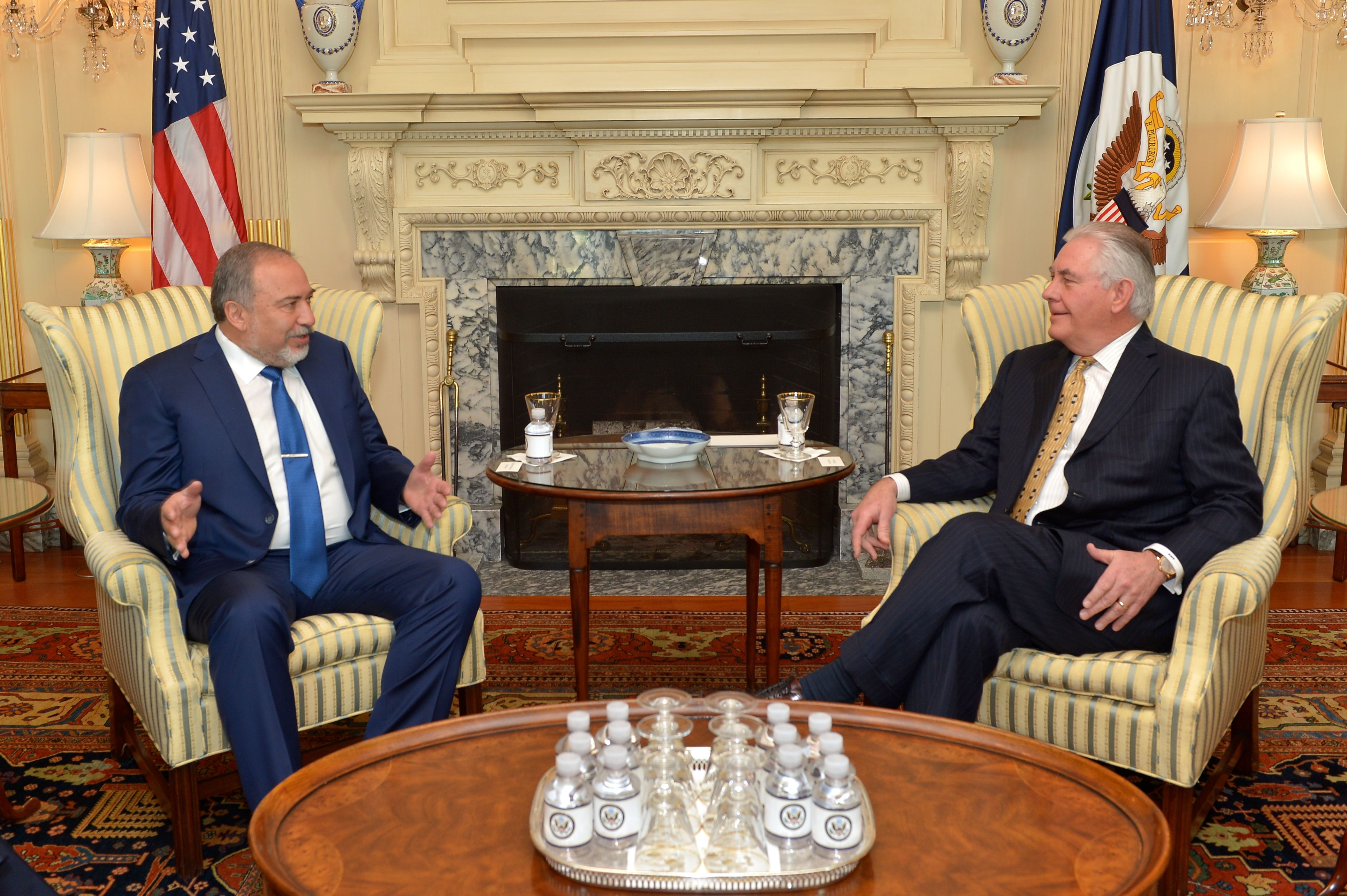 U.S. Secretary of State Rex Tillerson meets with Israeli Minister of Defense Avigdor Lieberman at the U.S. Department of State in Washington, D.C., on March 8, 2017.